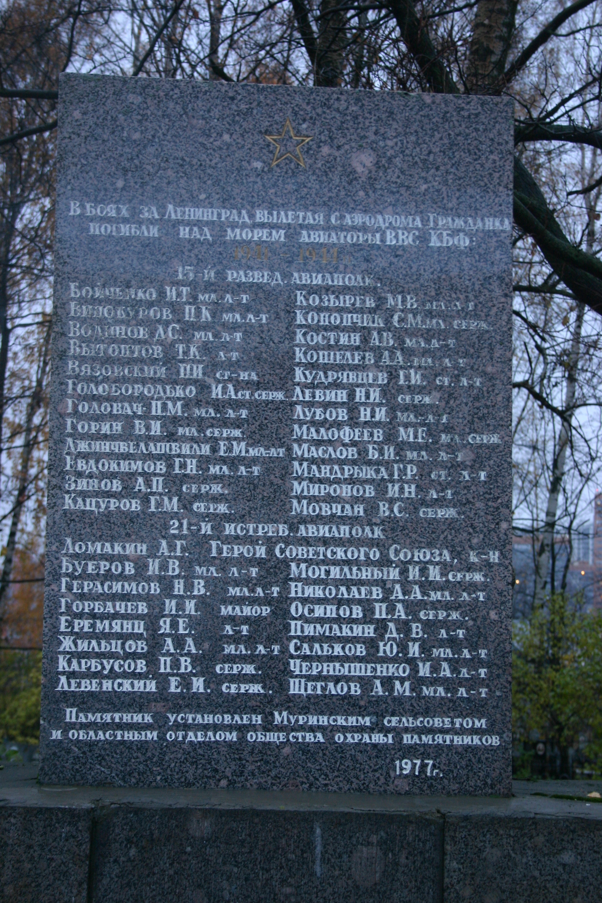 Sixs from the left side plate of Murino WWII pilots memorial.